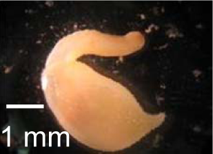 Phascolosoma turnerae.